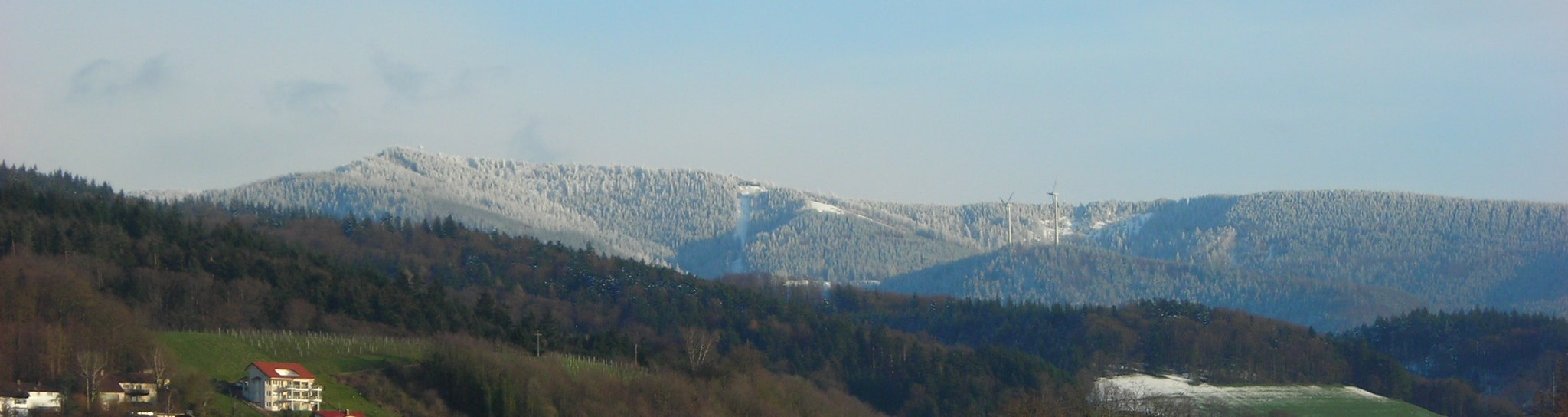 The Schauinsland, view from Freiburg (Germany)